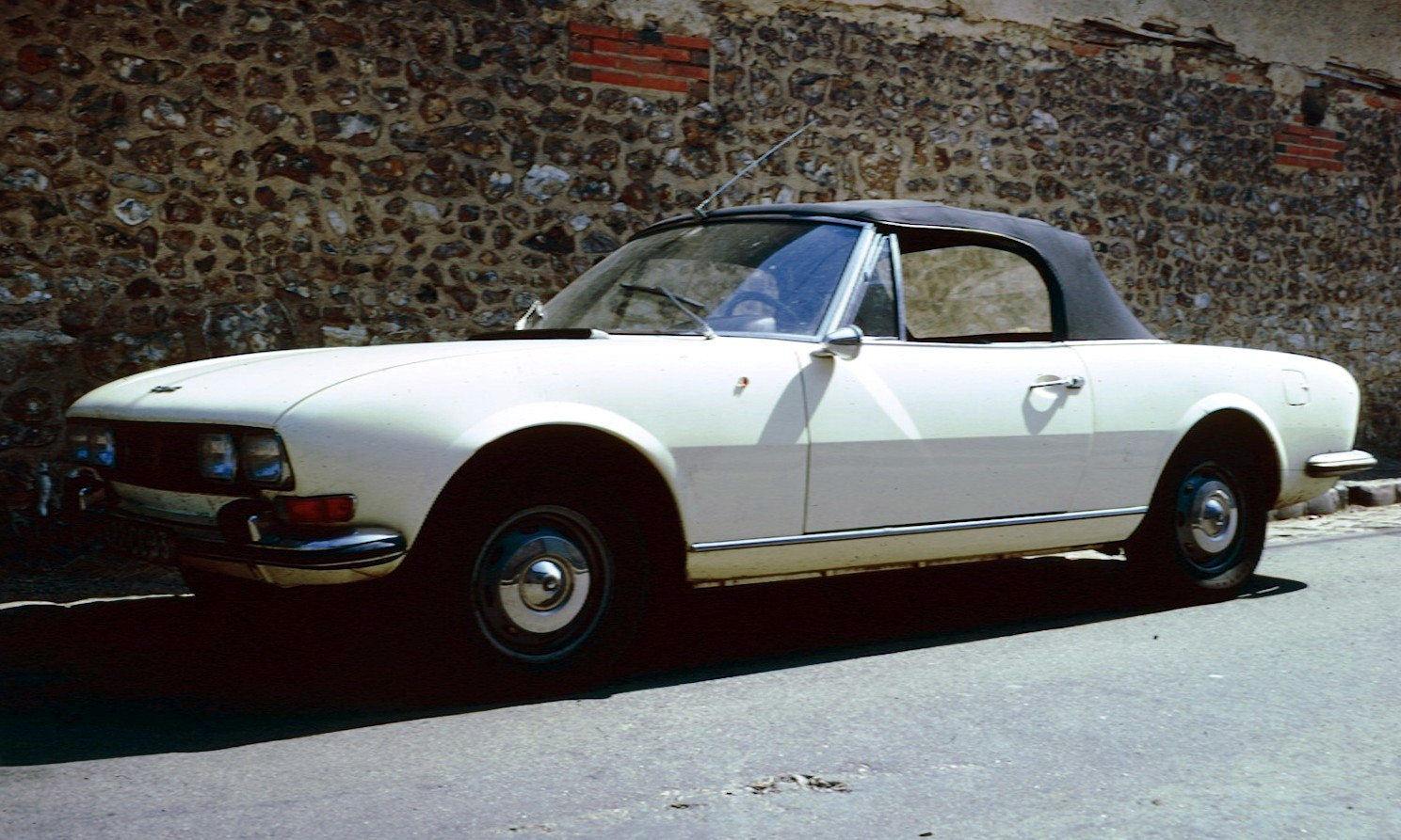 Peugeot 504 cabriolet by an interesting wall in Chartres